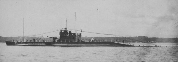 HIJMS Ro-31